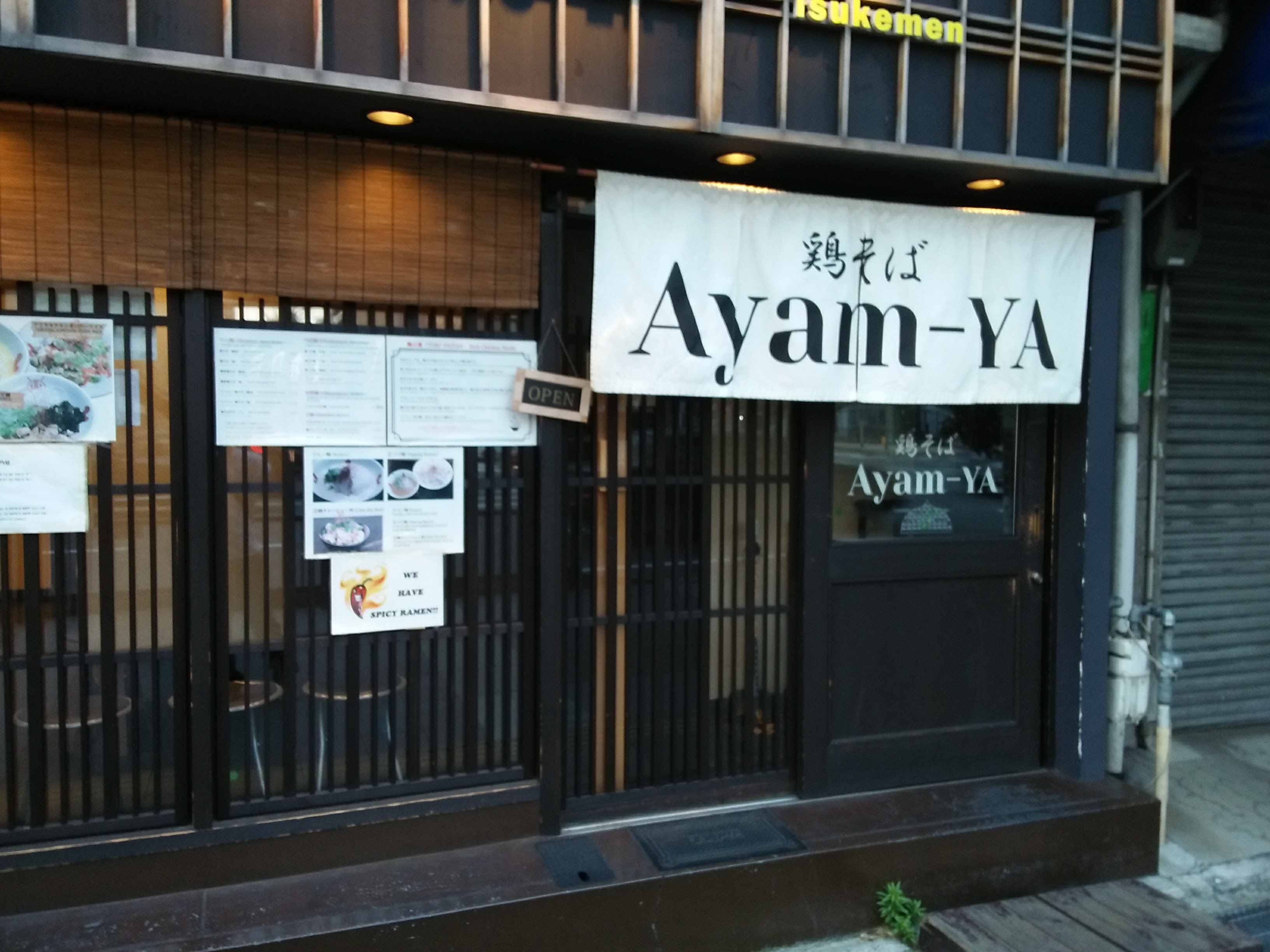 Ayam-ya Kyoto